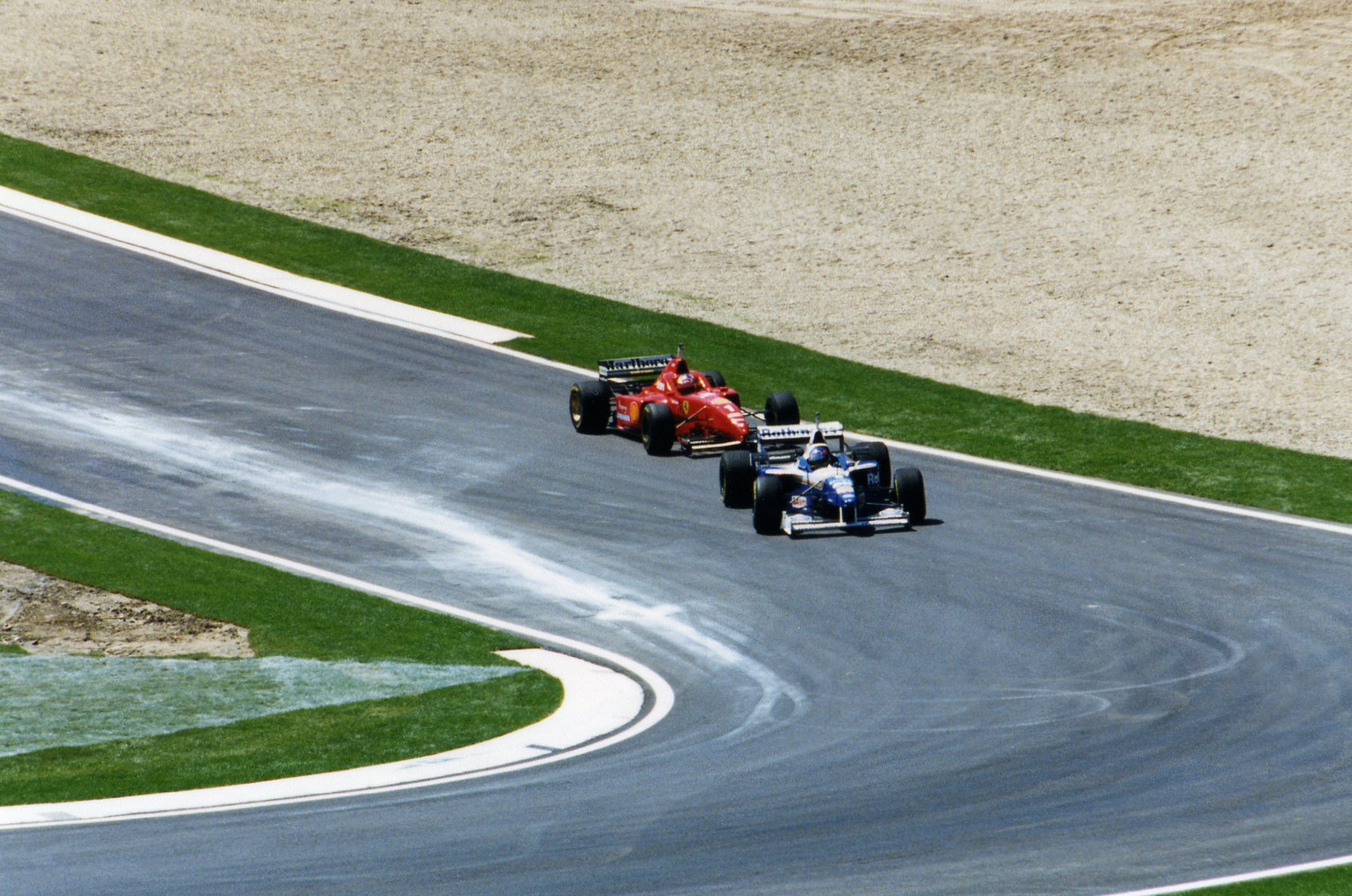 Jacques Villeneuve and Michael Schumacher during free practice of 1996 San Marino Grand Prix.